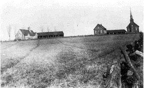 L to R, St. Barnabas Anglican, St. John's Presbyterian, and Fallowfield Methodist. All three of these Fallowfield churches were built on lot 21, concession 5 (known as Piety Hill). The only church that remains standing today is the Fallowfield United Church (formerly Fallowfield Methodist Church), which was built in 1886. St. John's Presbyterian Church was built in 1886 and unionized with the Methodists in 1925 when the United Church was formed. St. Barnabas Anglican church was built in 1889 and both St.Barnabas and St. John's were demolished in the 1940's. Fallowfield (now part of Ottawa), Canada.